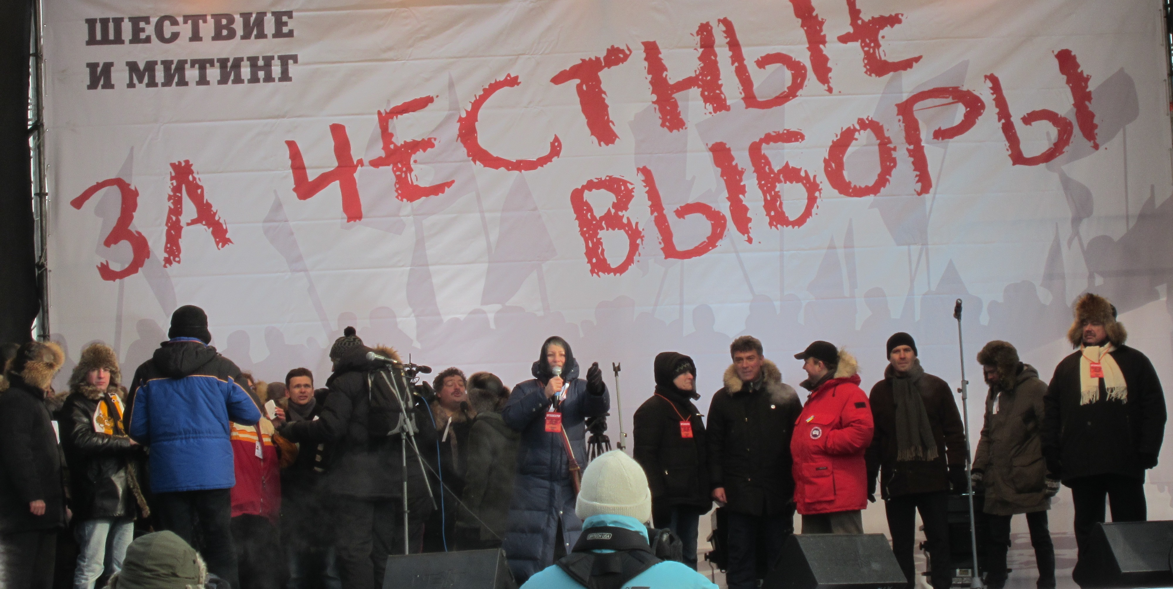 Russian writer Lyudmila Ulitskaya speeks at Bolotnaya Square